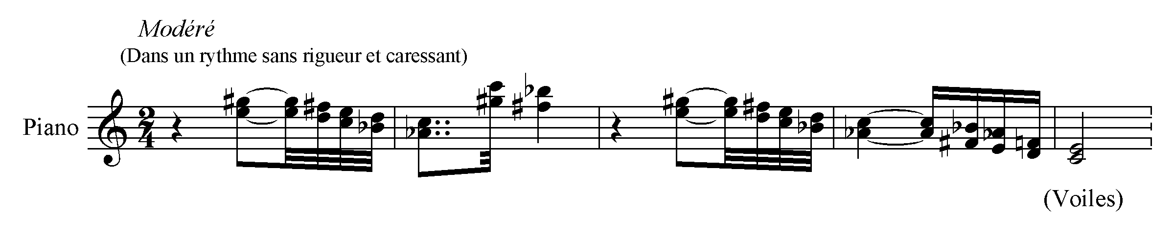 Debussy Voiles